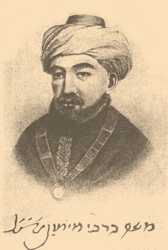 Illustration from Brockhaus and Efron Jewish Encyclopedia (1906—1913)